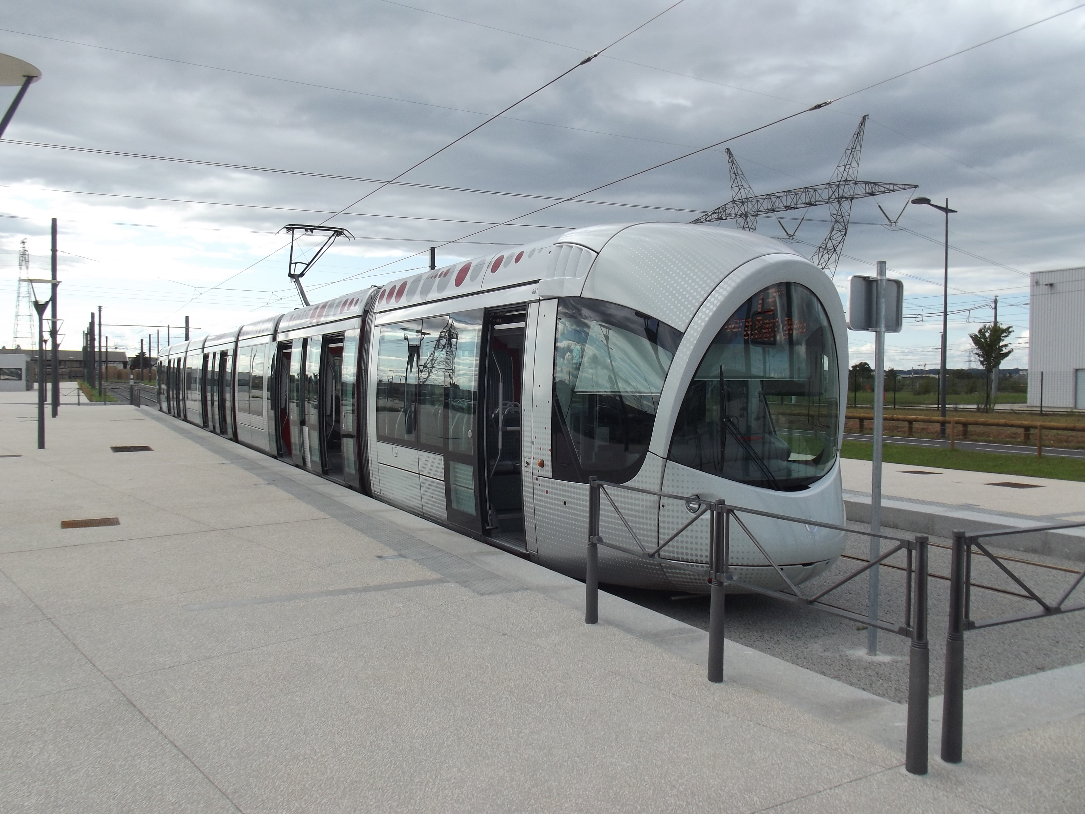 New tramterminus for tramline T3 on weekdays (Monday to Saturday)